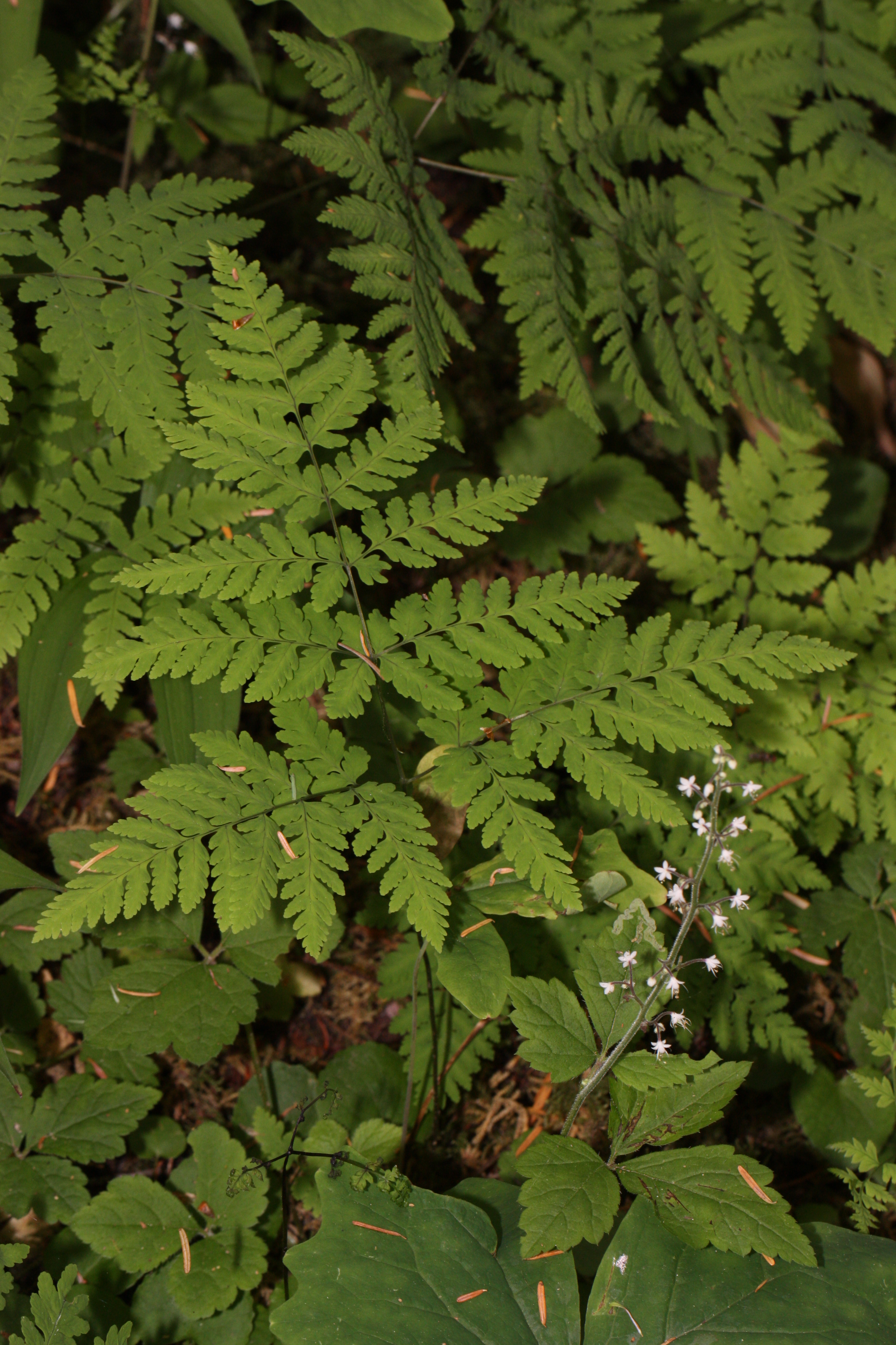 Common Oak Fern, Northern Oak Fern; Tiarella trifoliata var. trifoliata